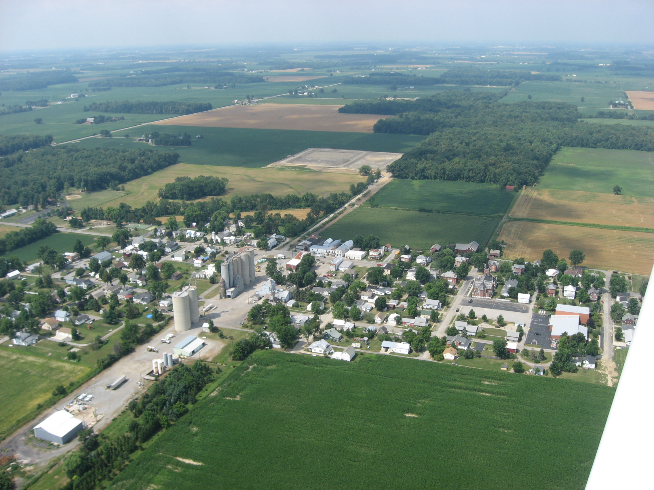 Aerial view of the village of Jenera in Hancock County, Ohio, United States. Picture taken from a Diamond Eclipse light airplane at an altitude of 1,600 feet MSL and a bearing of approximately 250º.